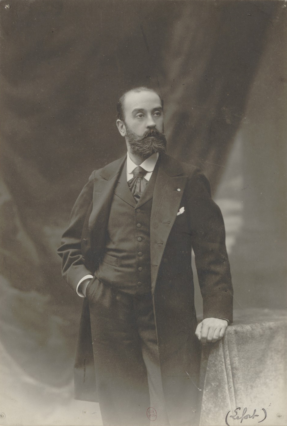 The French violinist and teacher Narcisse-Augustin Lefort (1852–1933)